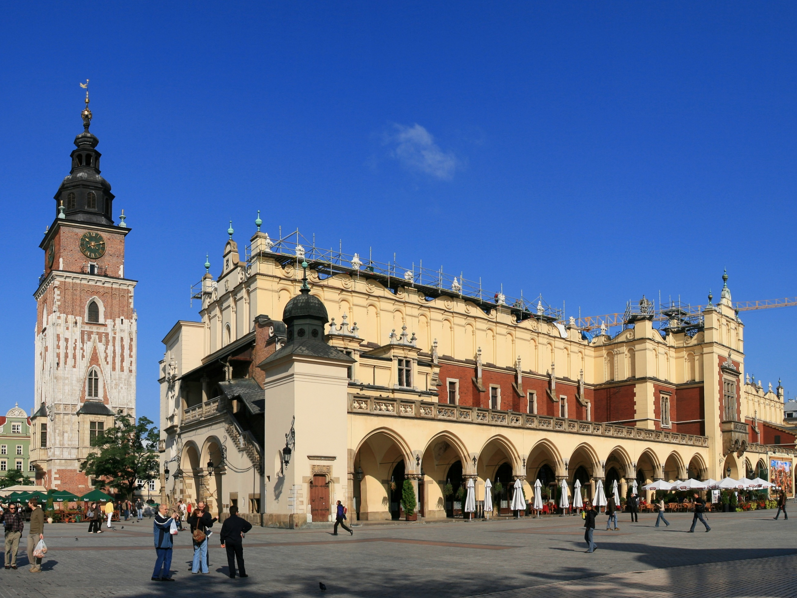 Cloth Hall (Sukiennice) in Kraków (Poland).